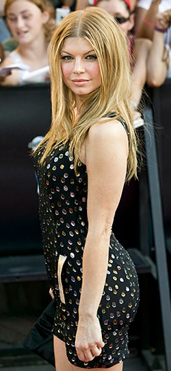 Fergie (singer) at the en:2007 MuchMusic Video Awards (cropped).